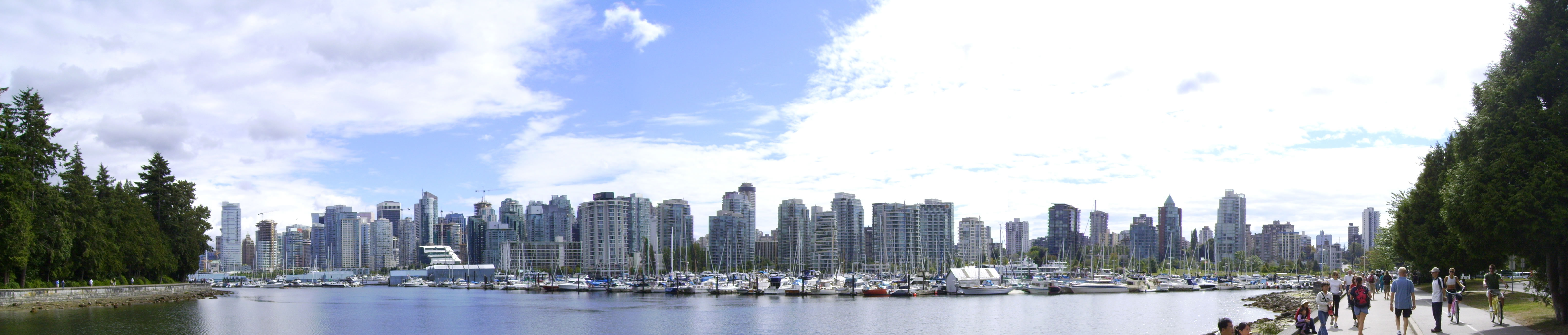 Vancouver panorama from stanley park